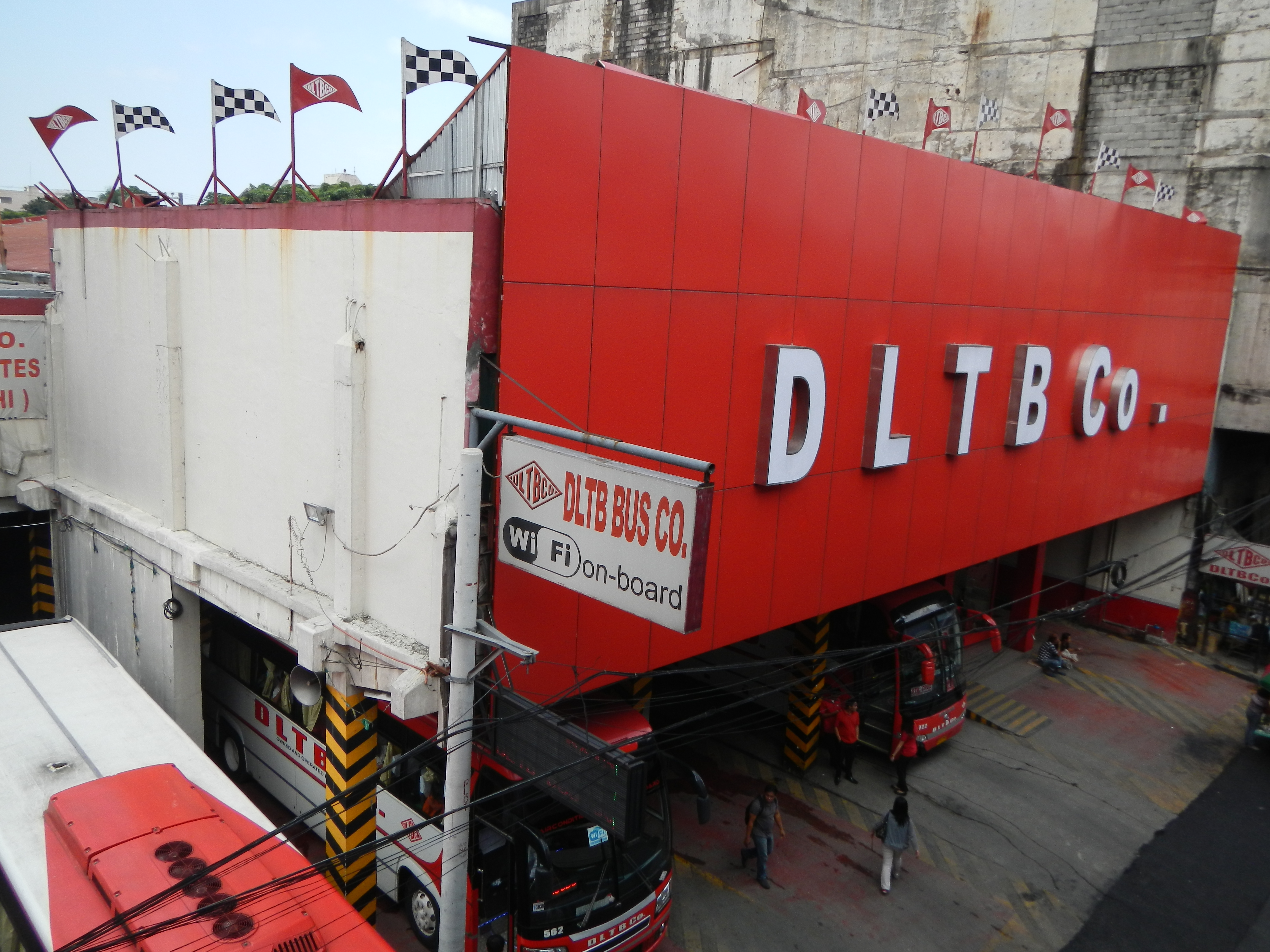 Upload Wizard photos of - Mang Inasal[1] (Hiligaynon for Mr. Barbecue is a restaurant in the Philippines), photo here, in Pulilang, Bulacan), [2] Brgy. Cutcot cor. Doña Remedios Trinidad Highway, Coordinates: 14°54'8"N 120°52'3"E Pulilan Bulacan.[3], DLTBCo[4] (Del Monte Land Transport Bus Company or simply DLTBCo formed as a subsidiary of Del Monte Motor Works, Inc.[5] or DMMW formed as a resurgent of Batangas Laguna Tayabas Bus Company Incorporated, or simply BLTBCo., headquarters at Malibay, Pasay City, [6] Philippines), and McDonald's[7], beside the Bus Company at Pasay City, beside the LRT Gil Puyat or Buendia, Taft Avenue.